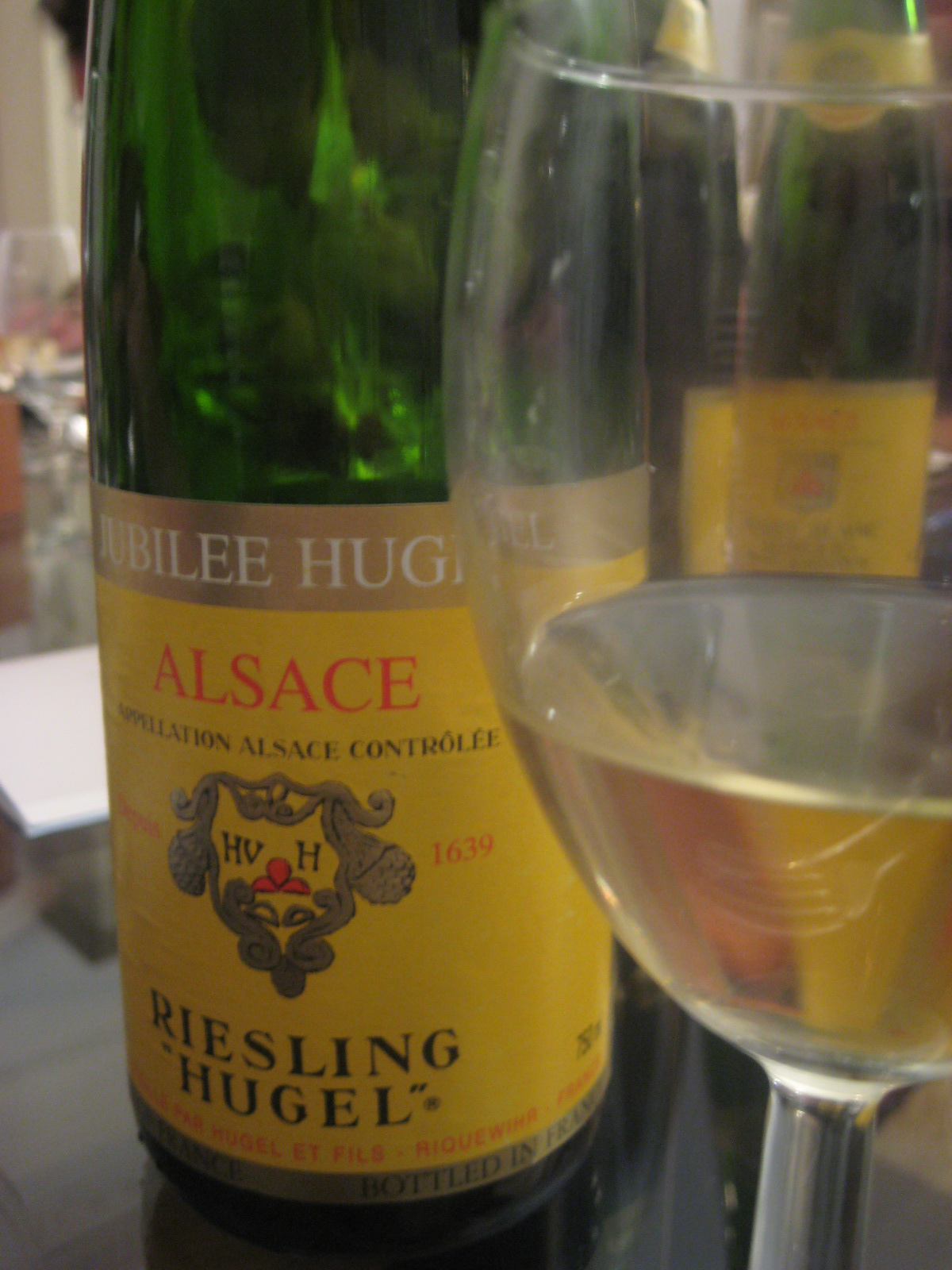 French Riesling wine from Alsace.